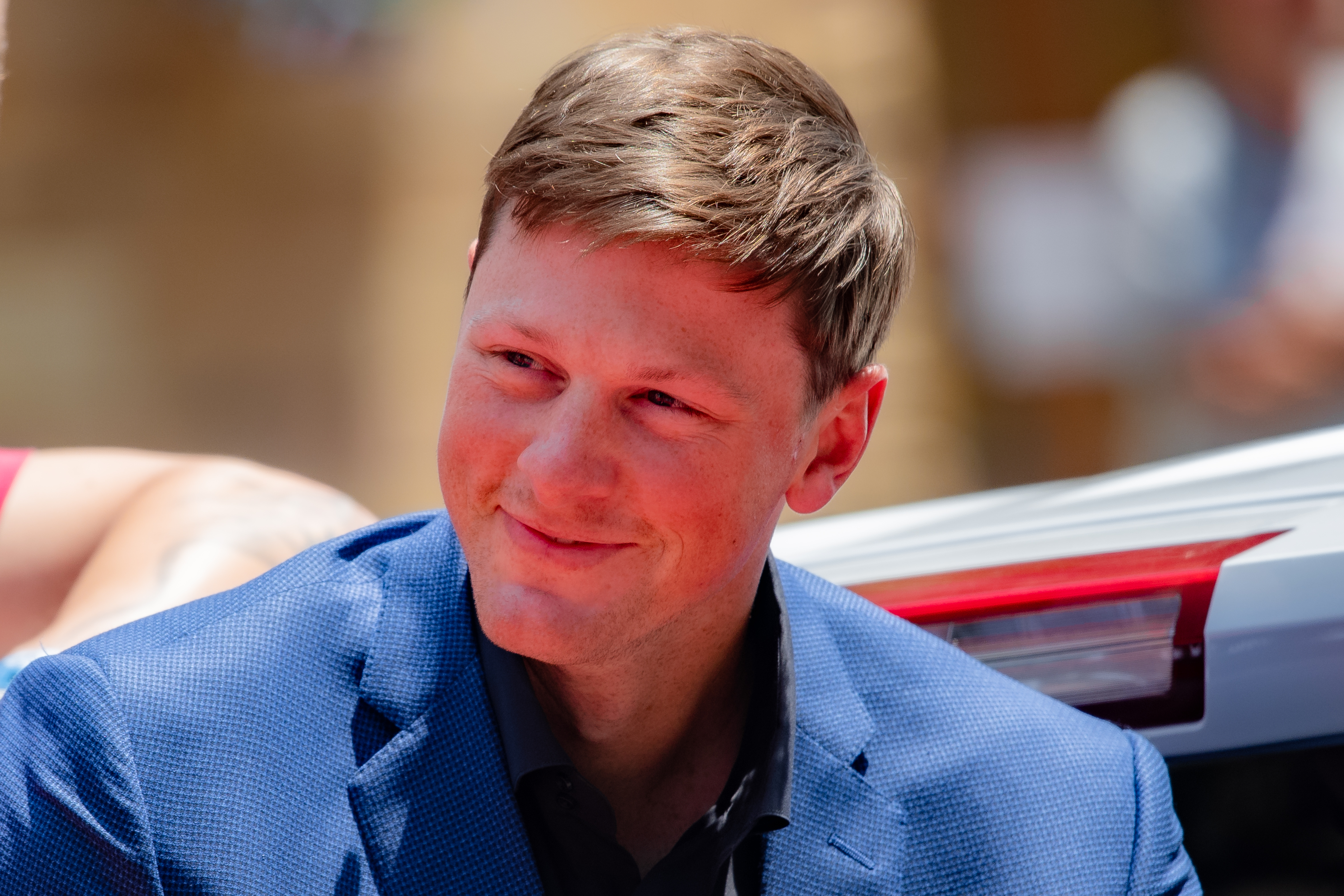 New York Yankees infielder DJ LeMahieu during the 2019 Major League Baseball All-Star Game Red Carpet Parade in Cleveland, Ohio